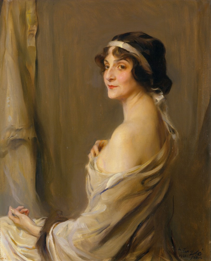 Portrait of Princess George of Greece and Denmark, née Princess Marie Bonaparte